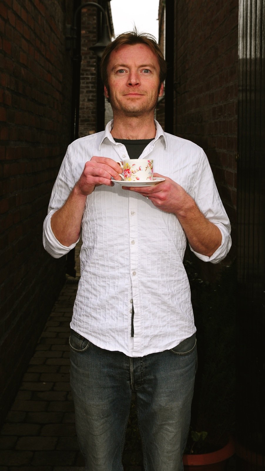 Actor Richard Dormer in The Gentlemen’s Tea Drinking Society.